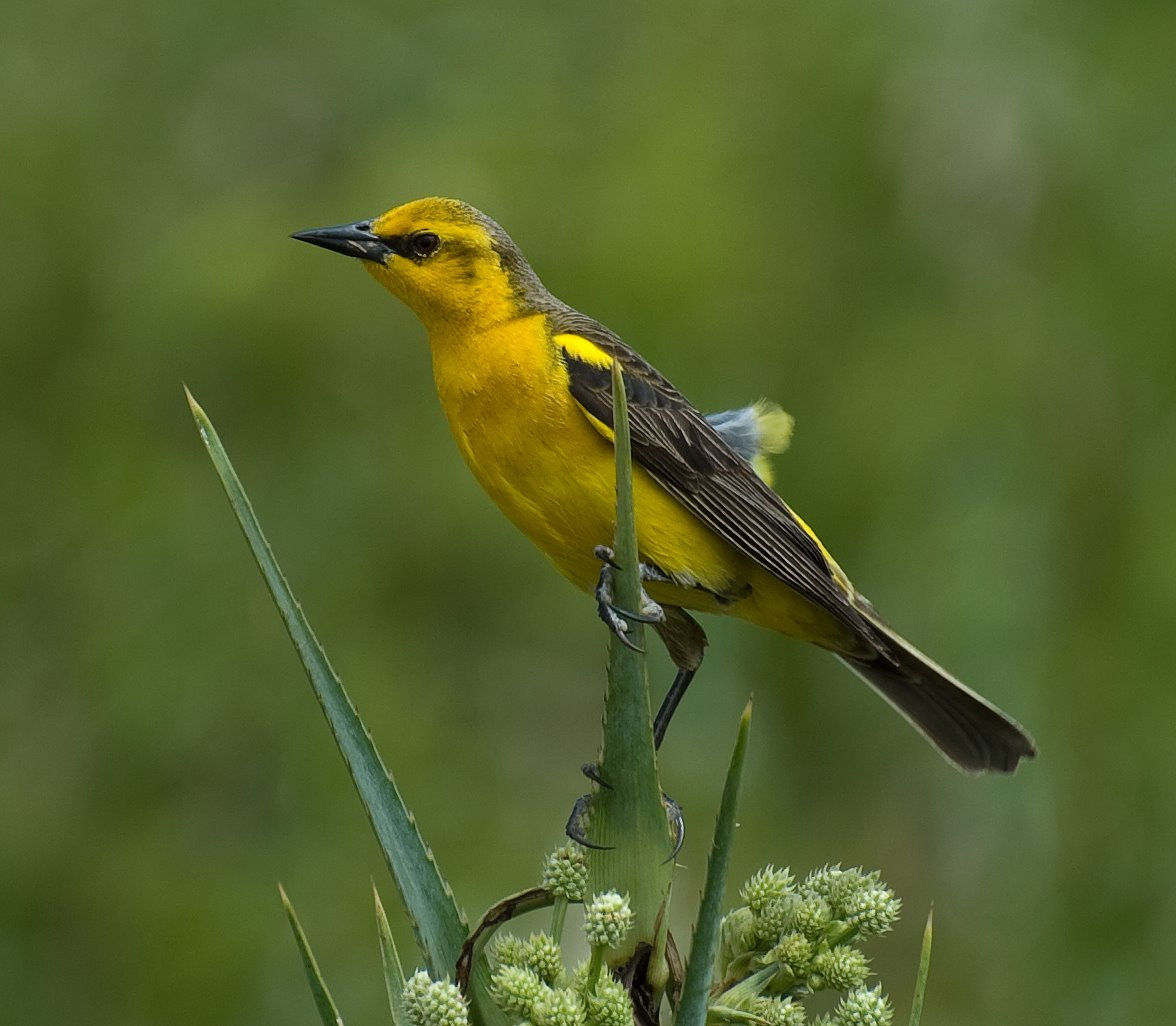 Xanthopsar_flavus_DRAGON_HEMBRA